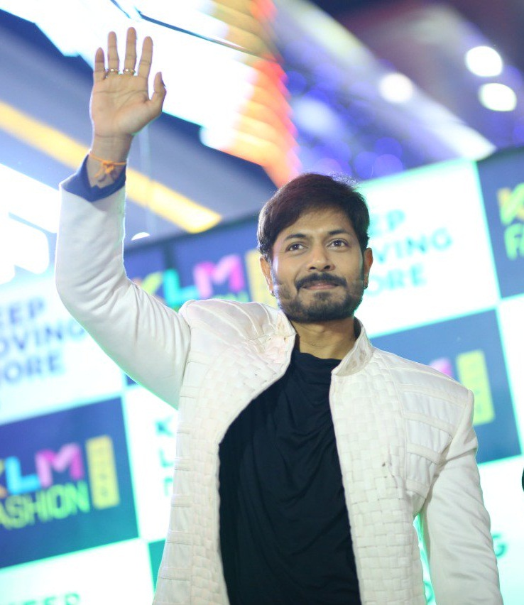 Kaushal Manda during opening ceremony of KLM shopping Mall